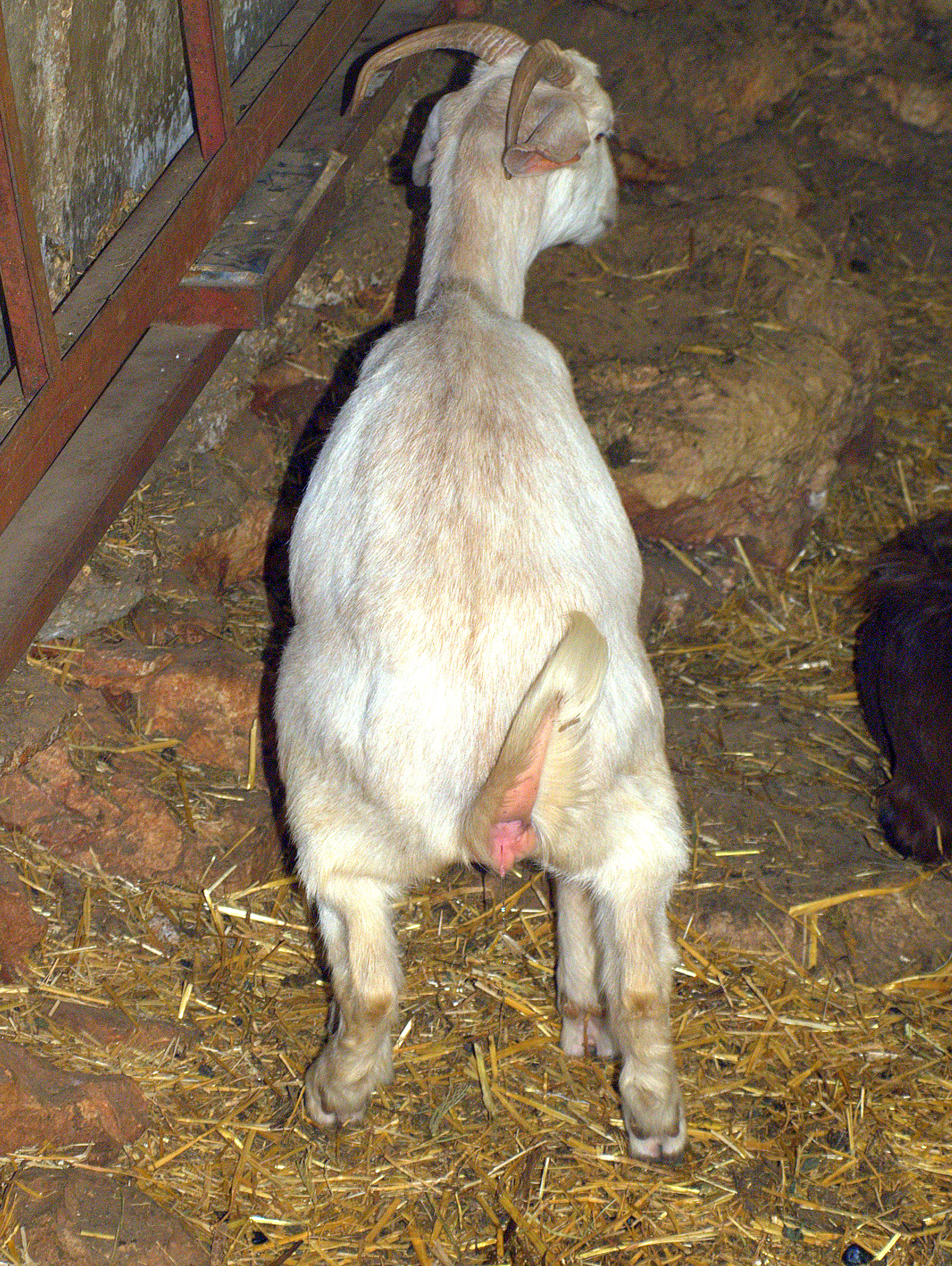 A goat urinating on the organic farm located on the grounds of the homeopathic resort Hotel Mizpe Hayamim in Rosh Pina, Israel.